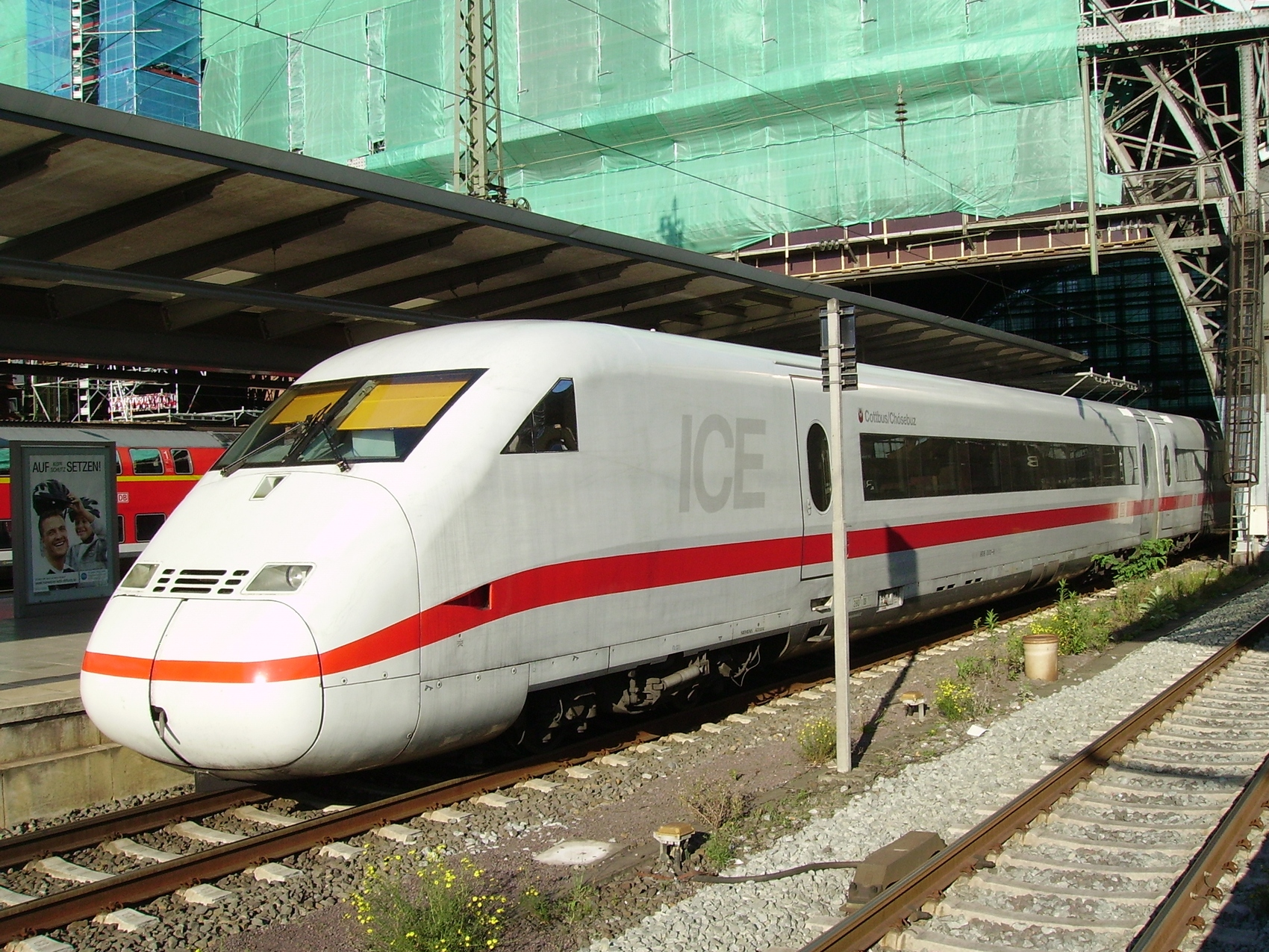 An ICE is leaving the central railway station of Bremen bound for Munich